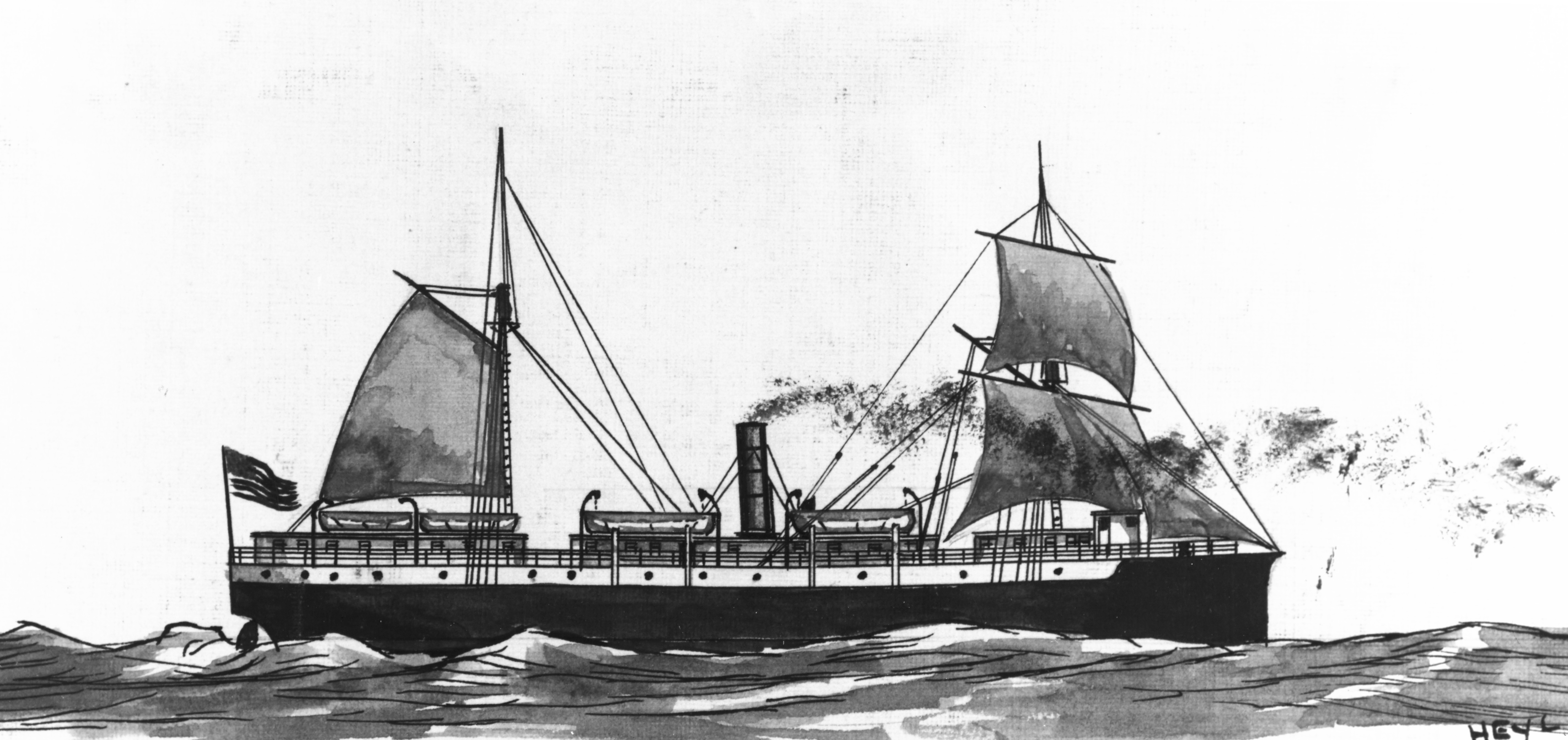 The steamship Allegany. Built in New York in 1863 as Neptune, the ship was requisitioned by the United States Navy while still under construction and completed as a gunboat, serving in the American Civil War as USS Neptune. After the war, the vessel was sold, and entered merchant service as the steamship Allegany. Allegany was wrecked in a fog off Long Island, New York, in 1865.